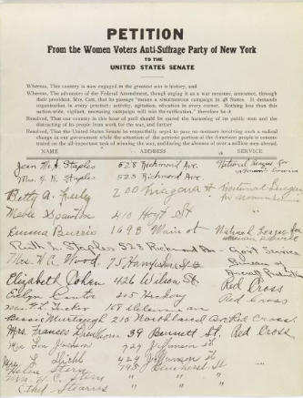 Petition from Women Voters Anti-Suffrage Party of New York to the Senate, 1917